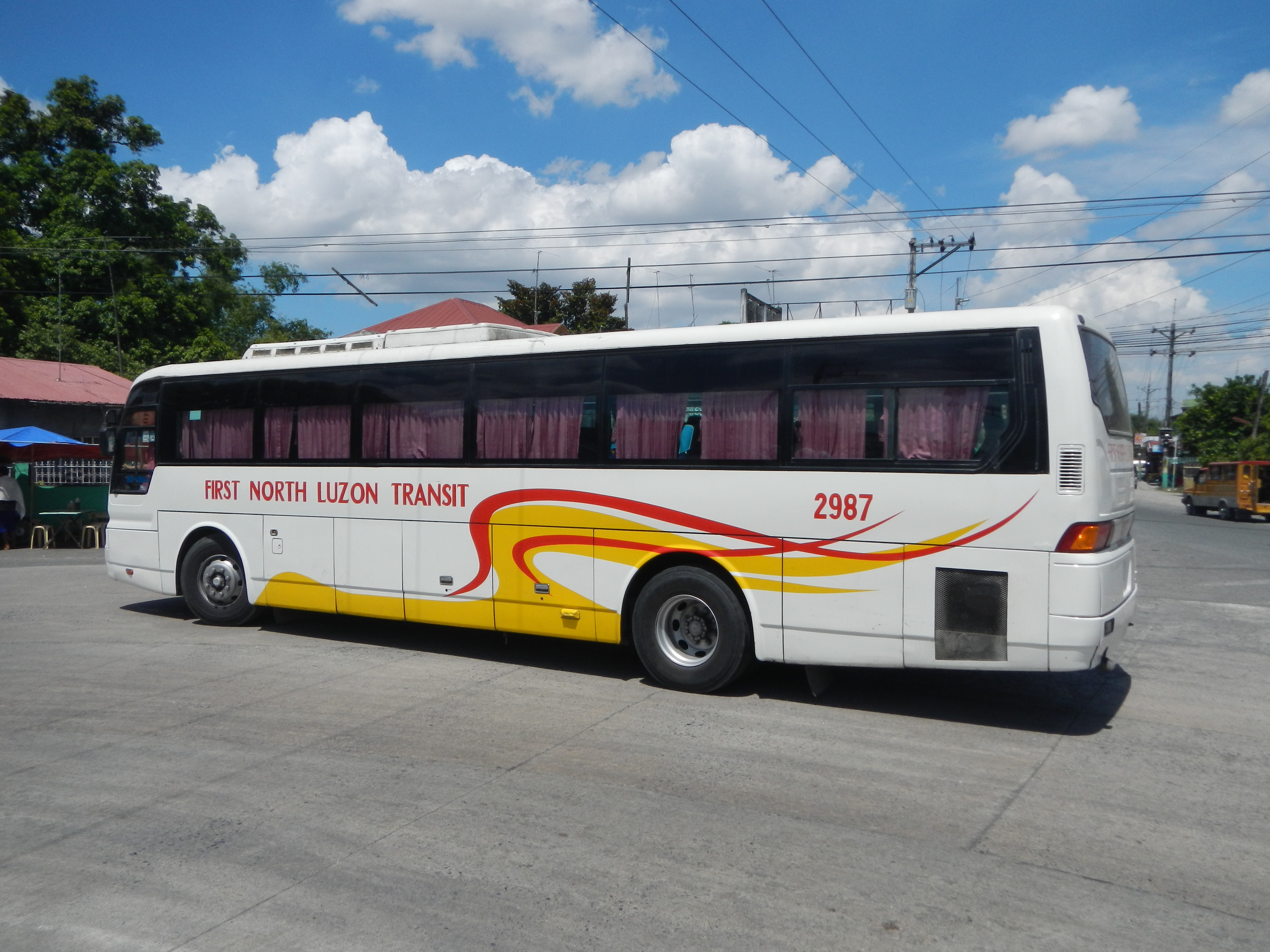 Barangay Santo Domingo Bridge (Santo Domingo, Mexico, Pampanga) K0068 + 443 along the Olongapo-Gapan Road, in the center is the Rotonda Santo Domingo, Mexico, Pampanga Agricultural Monument beside the Barangay Hall, Covered Court and bus stop terminals leading to Town Proper Santa Ana, Pampanga and in opposite direction to the Town Proper of Mexico, Pampanga.